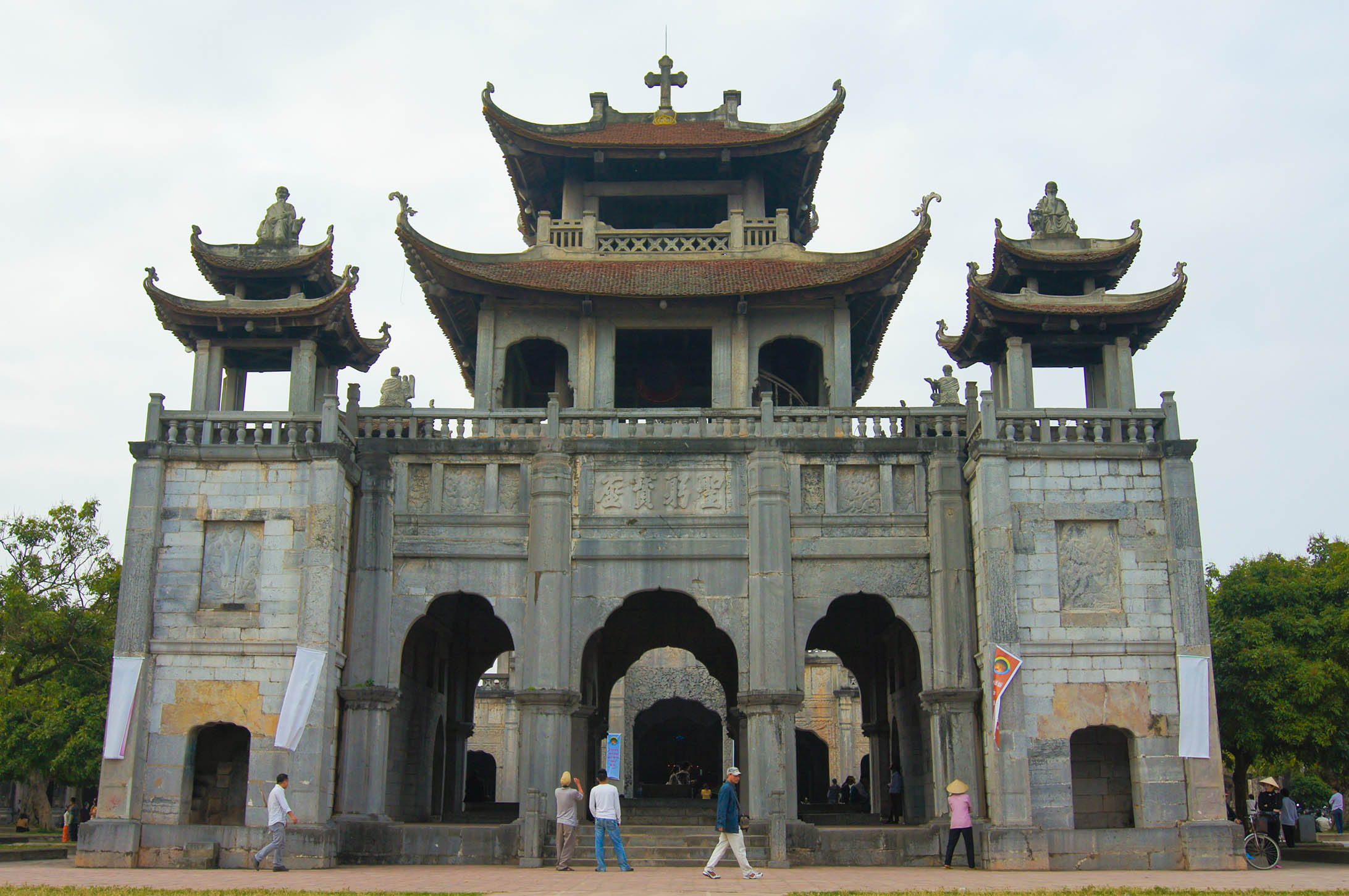 The front of the Phat diem Cathedral, Vietnam